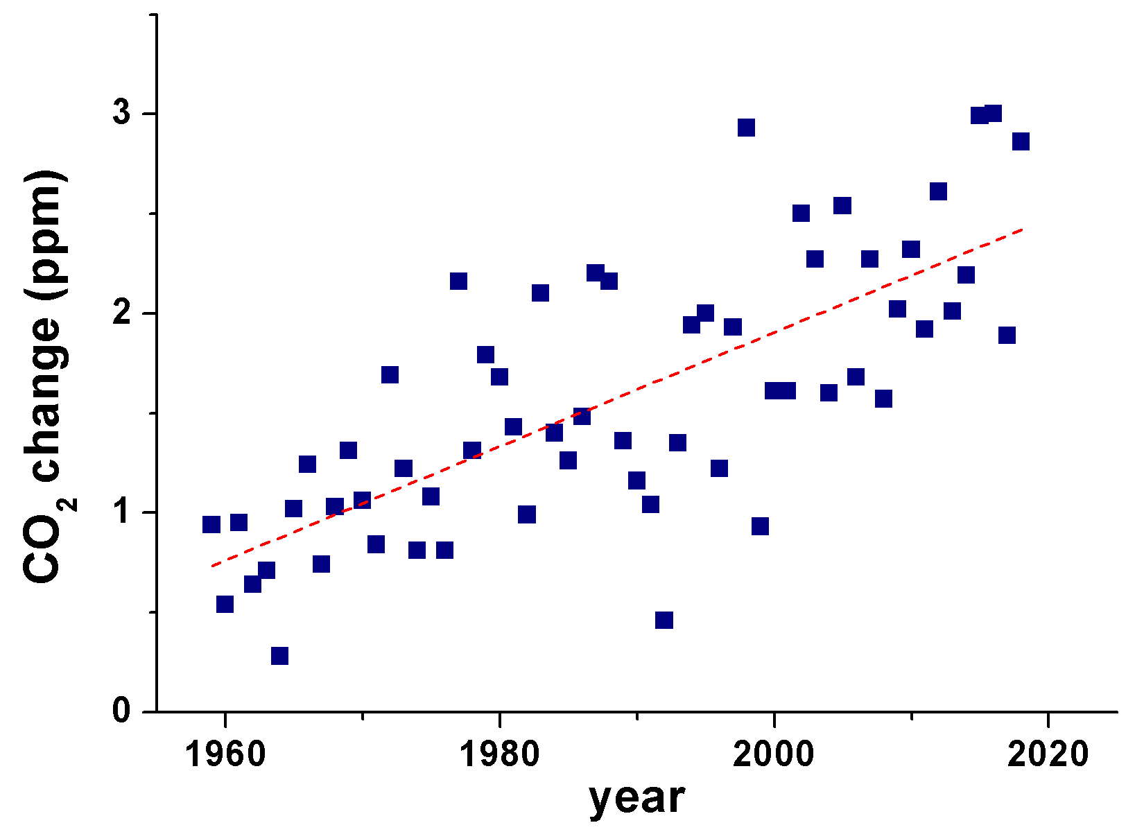 Year-over-year increase of atmospheric CO2